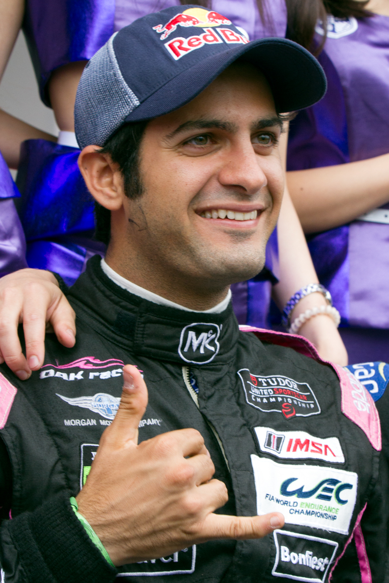 FIA World Endurance Championship 2014 Rd.5 6 Hours of Fuji: Gustavo Yacamán (OAK Racing)